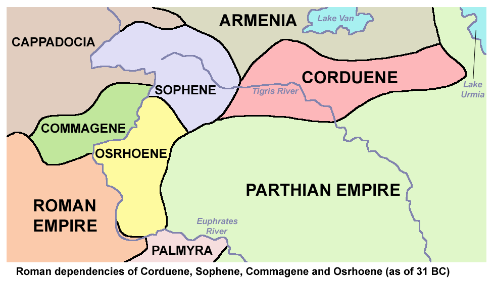 Map showing the Roman dependencies of Corduene, Sophene, Commagene and Osrhoene (as of 31 BC).